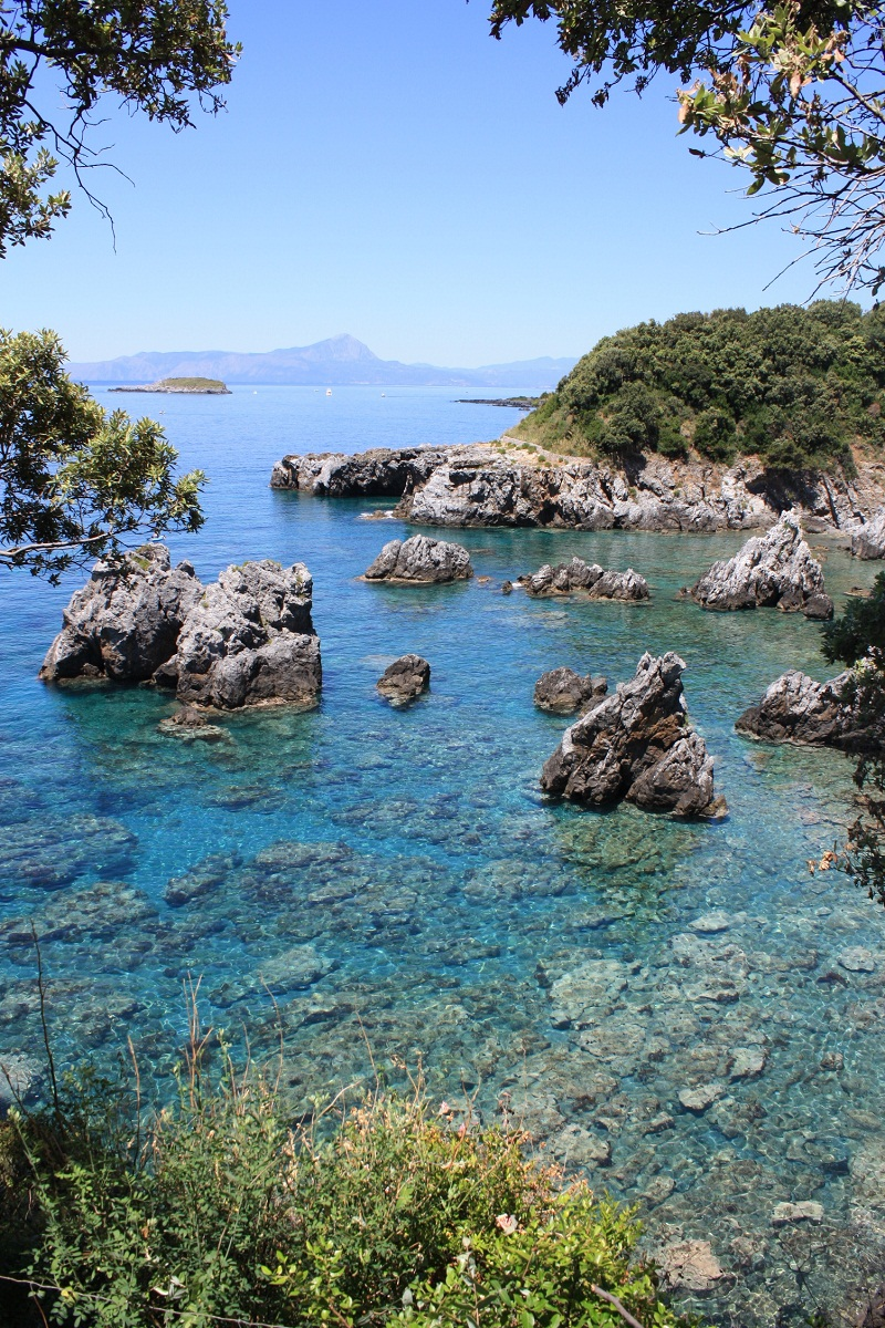 Maratea coast on day.